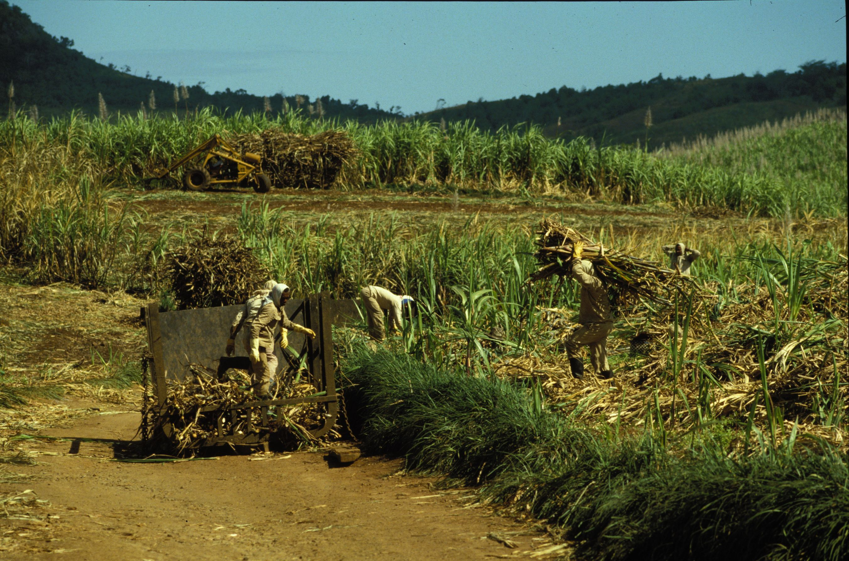 Harvesting of sugarcane on Mauritius